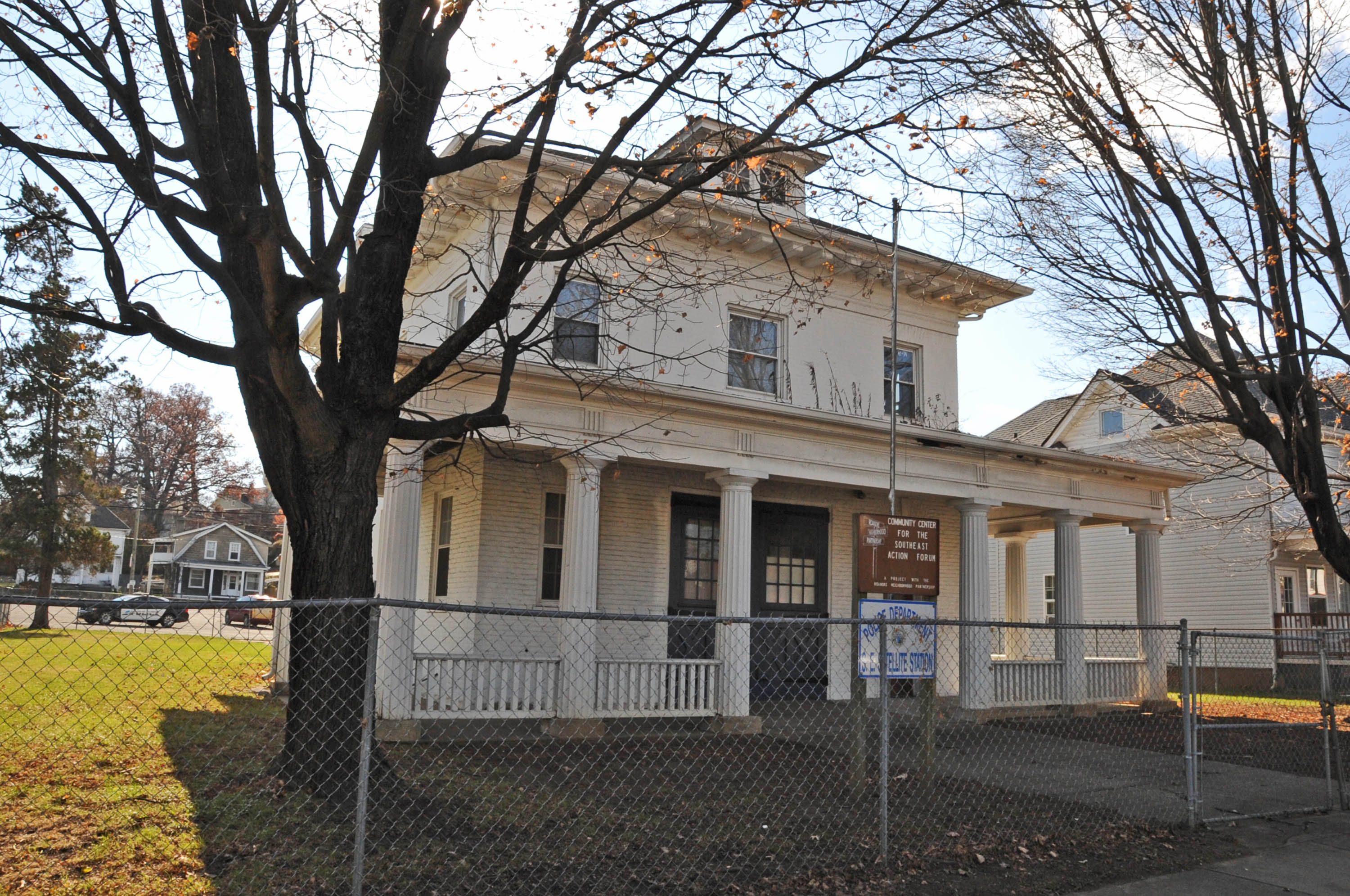 BUILT IN 1911 AND MADE TO RESEMBLE AN EARLY 20TH CENTURY AMERICAN FOURSQUARE DWELLING IWITH CLASSICAL REVIVAL DETAILS